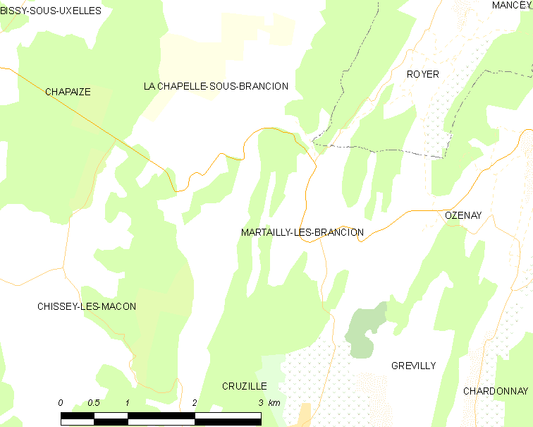 Map of French municipality